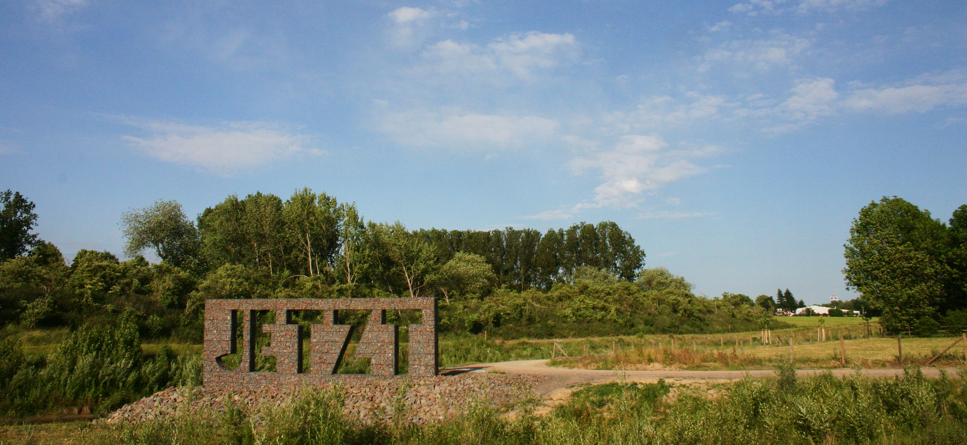 Public Art, land art, art in public space, Kamen